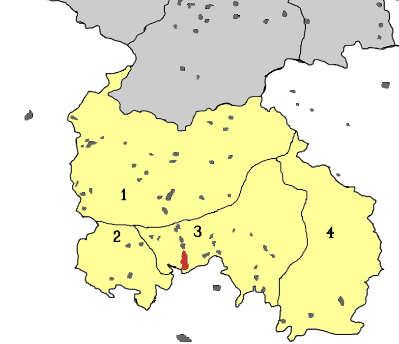 Rayons (yellow, numbered) and the capital city (red) of the unrecognized Republic of South Ossetia. The borders according to the Soviet ones. Rayons: 1. Dzau rayon. 2. Znaur rayon. 3. Tskhinval rayon. 4. Leningor rayon. The light grey territory to the north is North Ossetia Alania Republic of the Russian Federation; dark grey are some of the towns and villages.